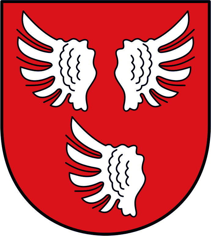 Coat of arms of Schuepfheim/Schüpfheim (Canton of Lucern)